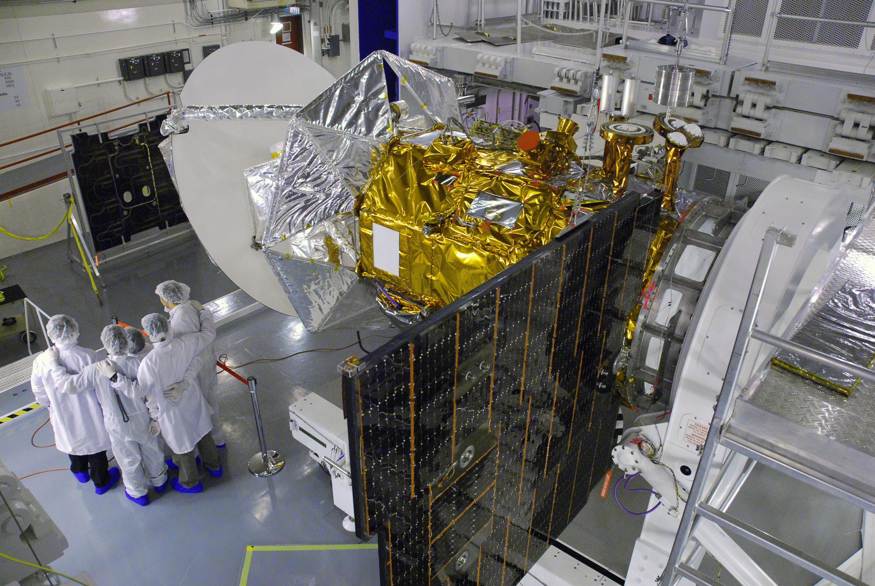 VANDENBERG AIR FORCE BASE, Calif. -- In Space Systems International's Payload Processing Facility at Vandenberg Air Force Base in California, technicians prepare to close the solar arrays on the Aquarius/SAC-D spacecraft. Following final tests, the spacecraft will be integrated to a United Launch Alliance Delta II rocket in preparation for the targeted June launch. Aquarius, the NASA-built primary instrument on the SAC-D spacecraft, will provide new insights into how variations in ocean surface salinity relate to fundamental climate processes on its three-year mission.